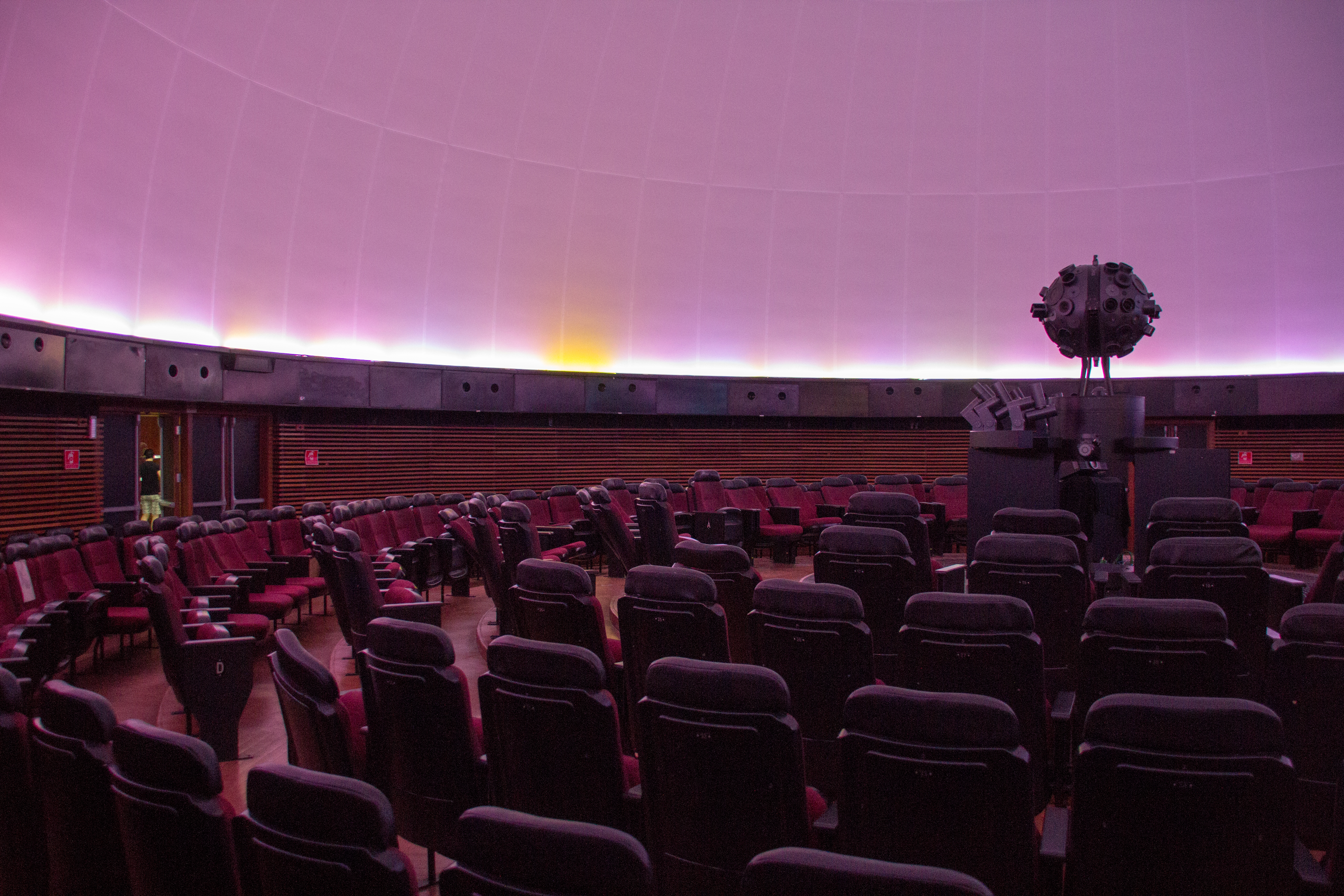 Professor Aristóteles Orsini Planetarium, São Paulo, Brazil